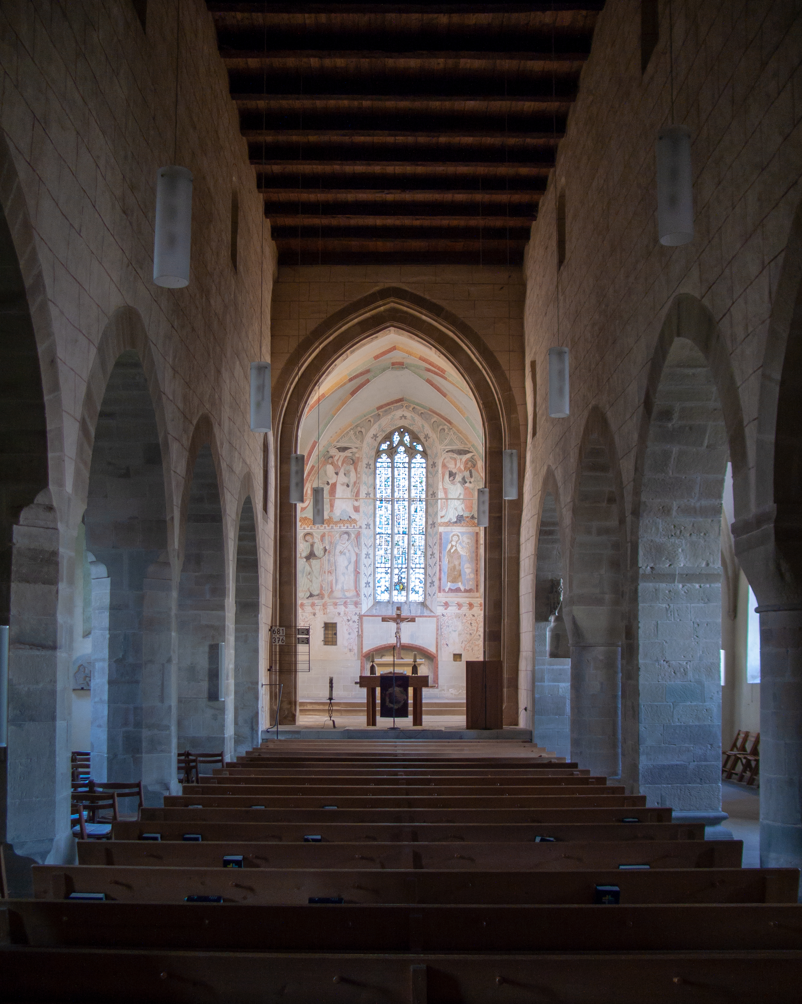 Interior of the Romanesque Johanniskirche (Saint John church) in Brackenheim (Germany), looking from west through the nave to the chancel with its frescoes.